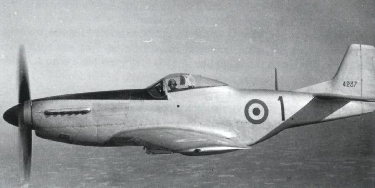 The F-51D M.M. 4237 of Comando Aeronautica della Somalia